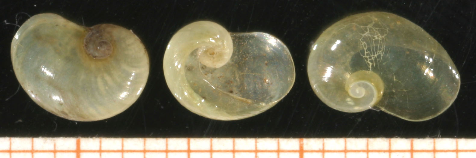 Photo of Eucobresia diaphana. Scale in mm. Locality: W Allgäu, between Bad Trögen and Weiler. Date: 02-November-1967.